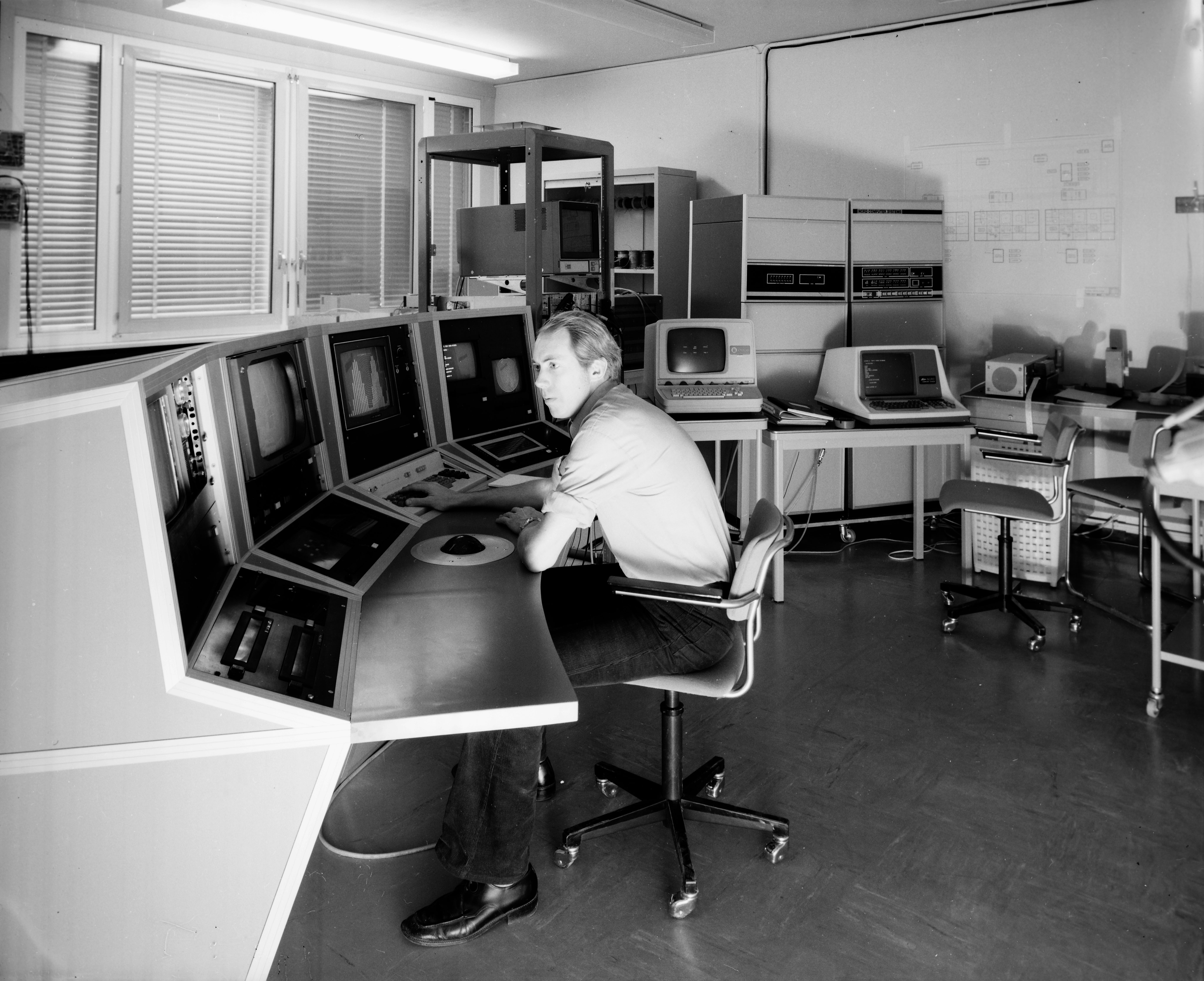 Bent Stumpe in front of the CERN-SPS central control console (prototype)